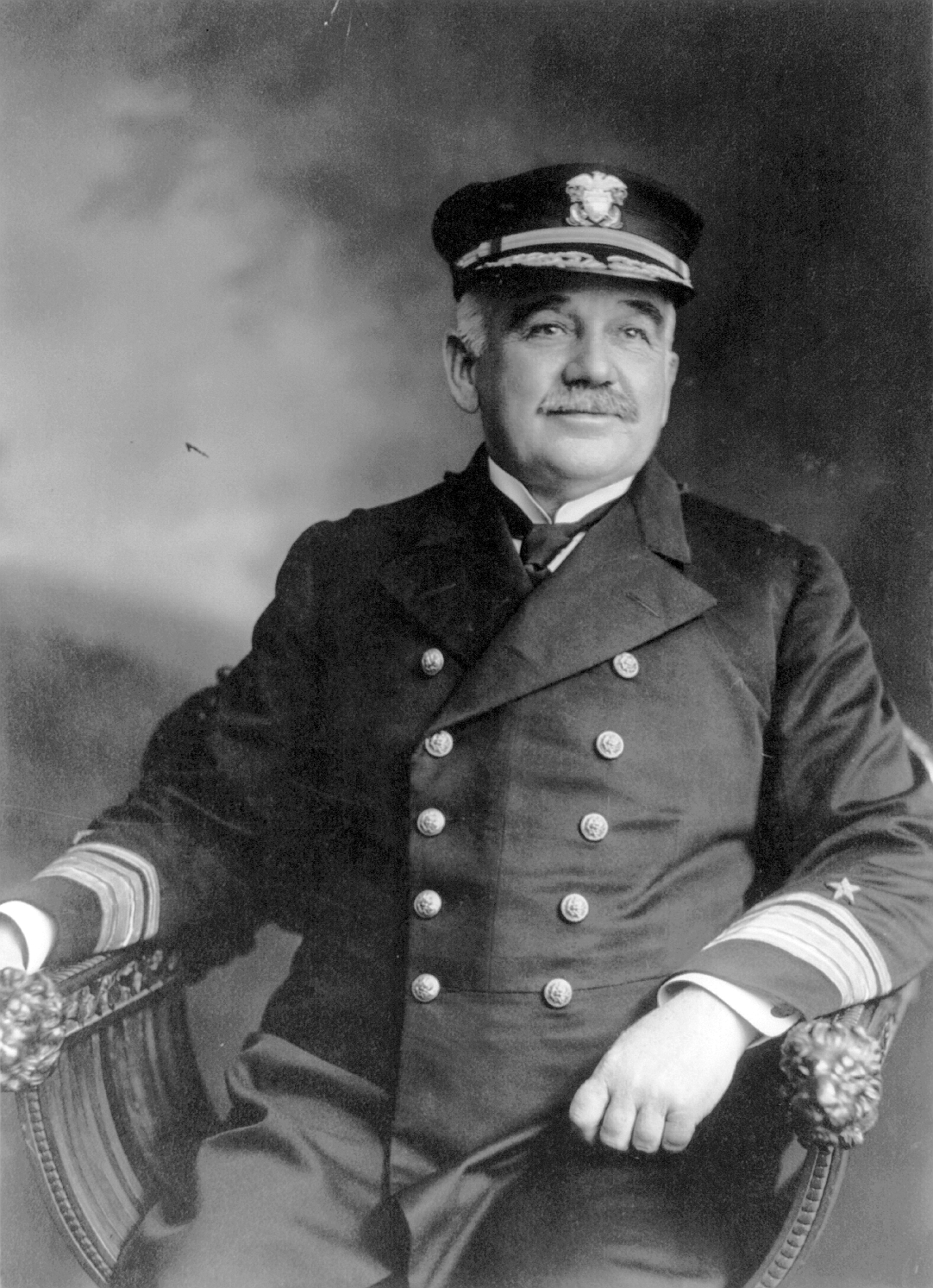 American admiral Hugo Osterhaus (1851-1927)